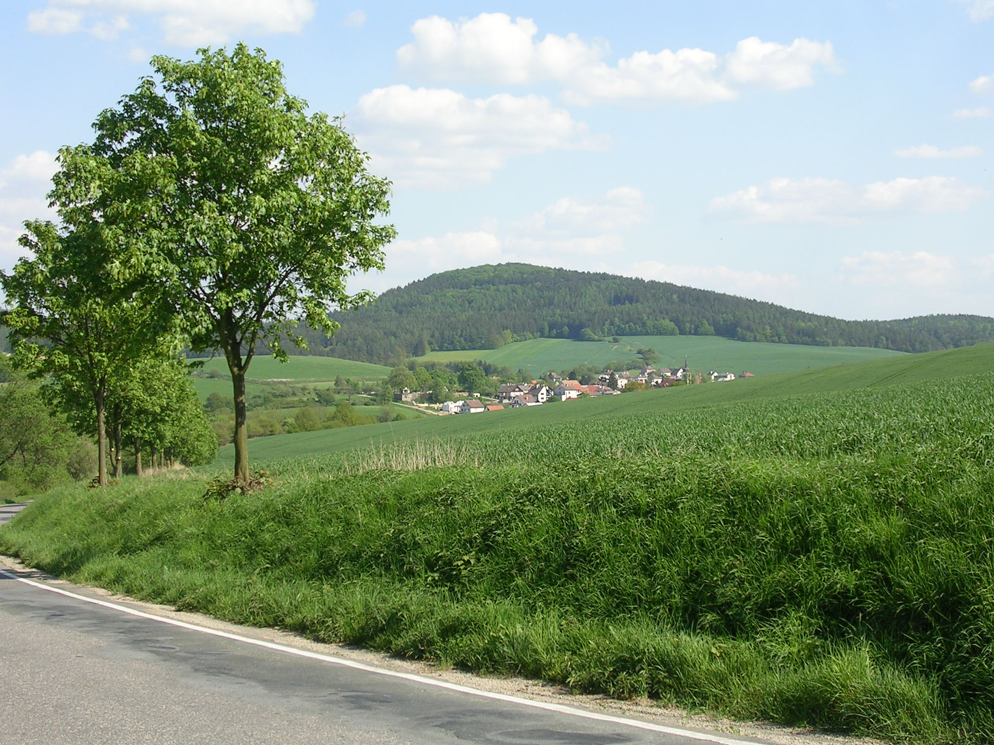 Louňovice pod Blaníkem, Central Bohemian Region, the Czech Republic.